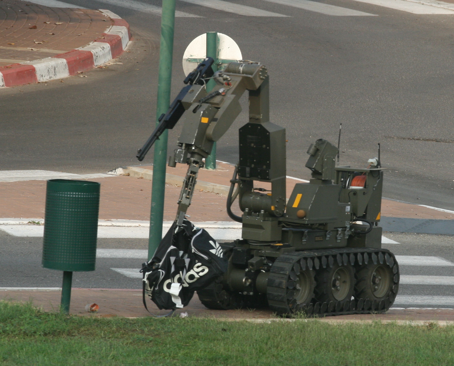 Bomb disposal robot of Israeli Police checking suspicious bag